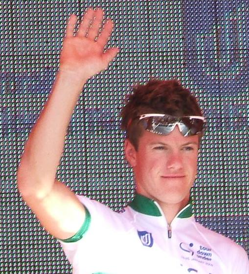 Named cyclist at the en:2009 Tour Down Under team presentation